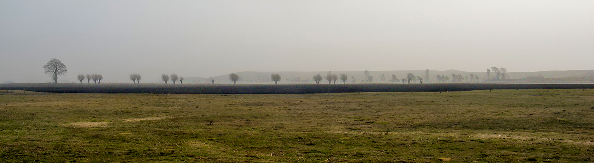 Plain in the province of Skåne in southern Sweden.